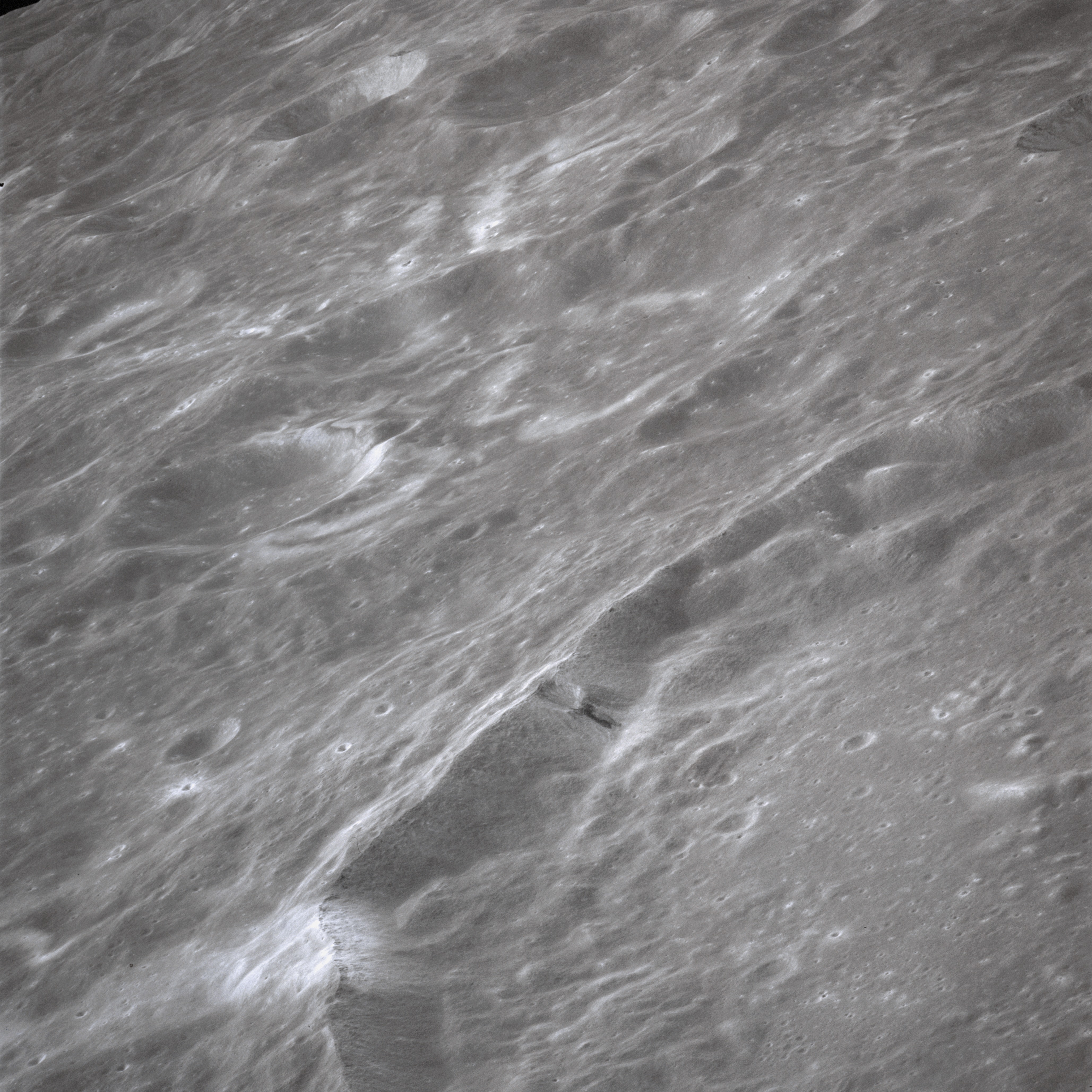 Oblique view of Guyot Crater